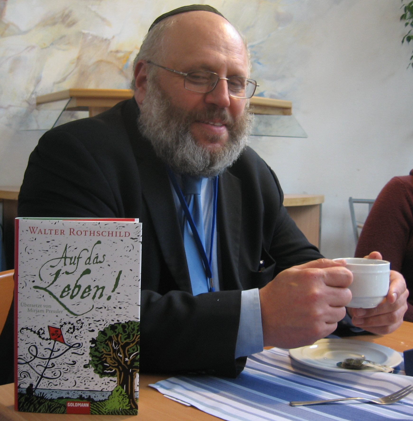 Rabbi Walter Rothschild. Taken during TaMaR conference "Lech Lecha Berlin 2008" in Western Berlin. On the left his recently published book "Auf das Leben".